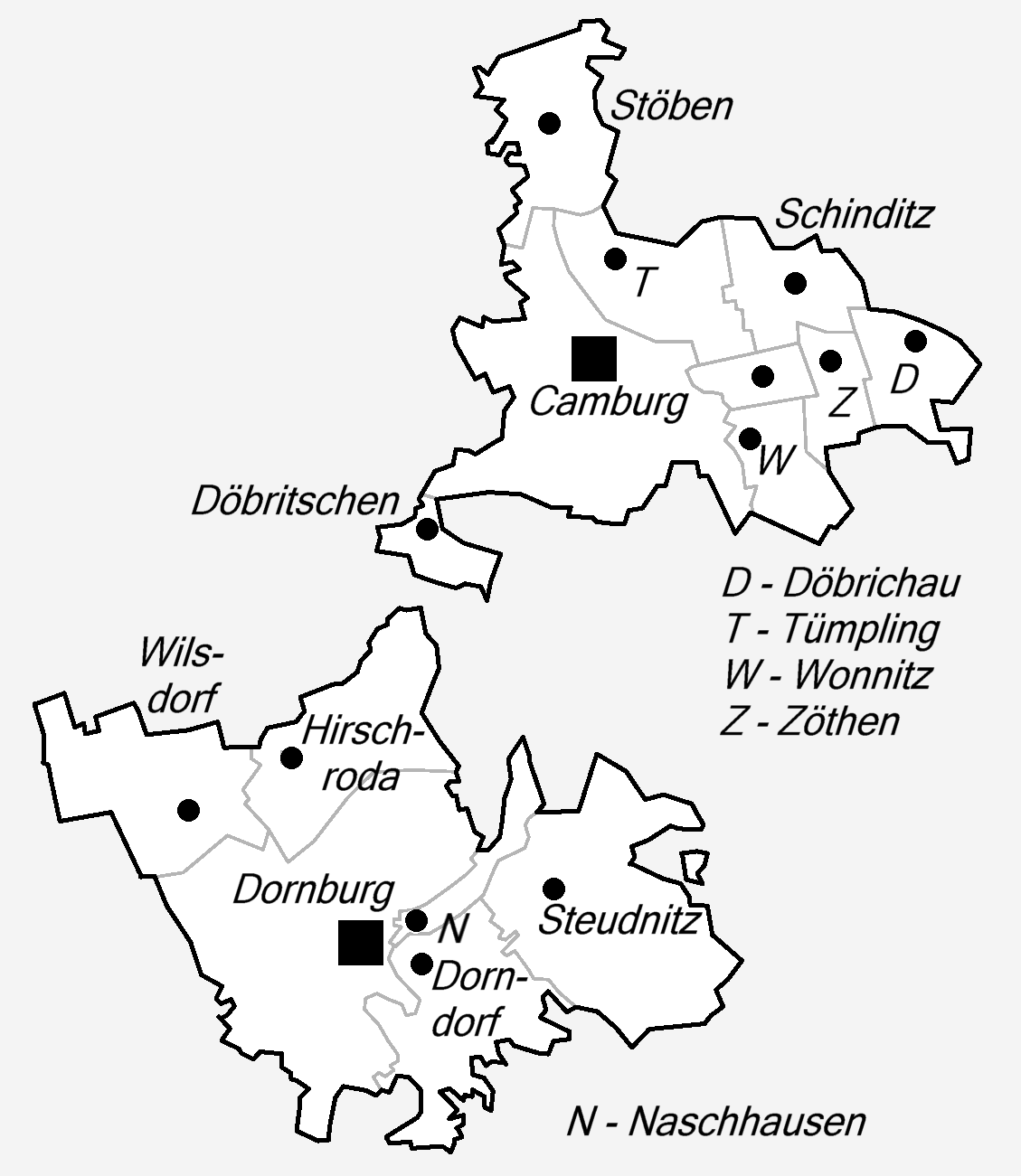 District-Maps of Dornburg-Camburg.